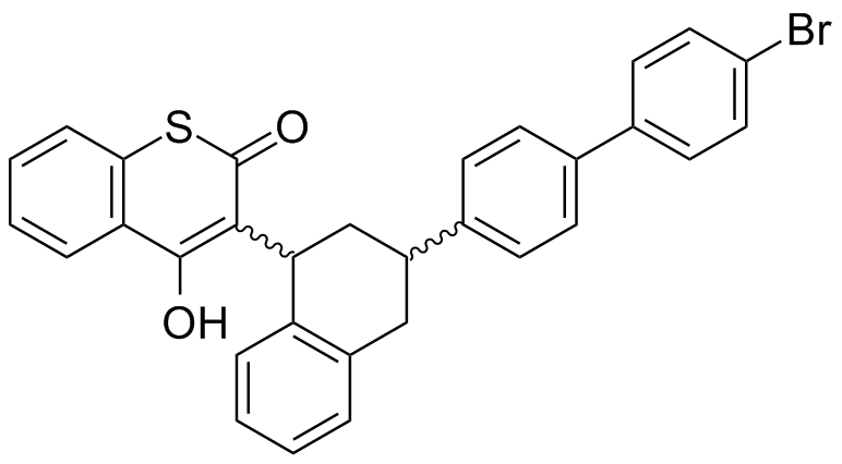 (1RS,3RS;1RS,3SR)-Difethialone, a second generation thiocoumarin anticoagulant rodenticide.